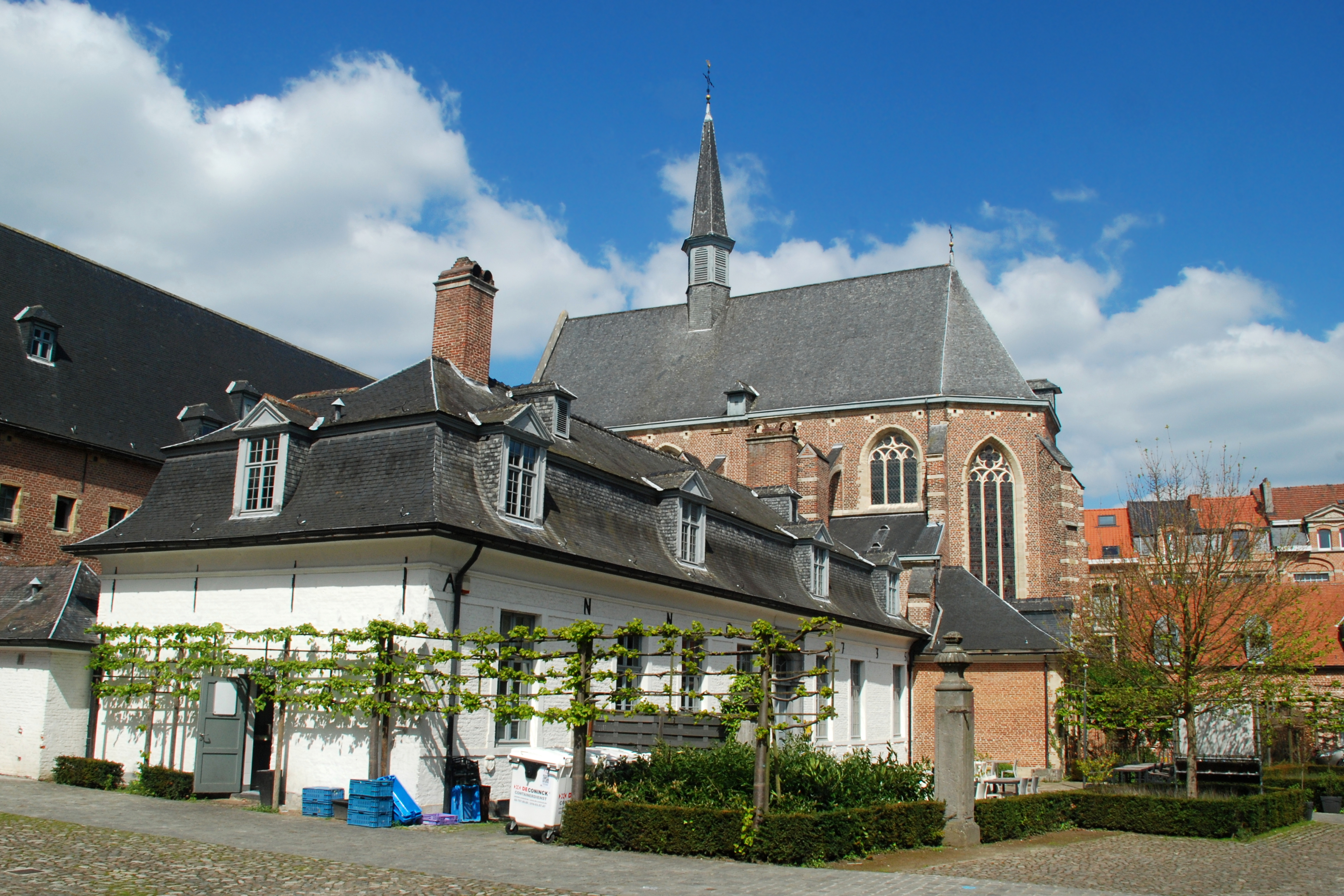 Belgium - Leuven - Chapel of the Romanesque Portal